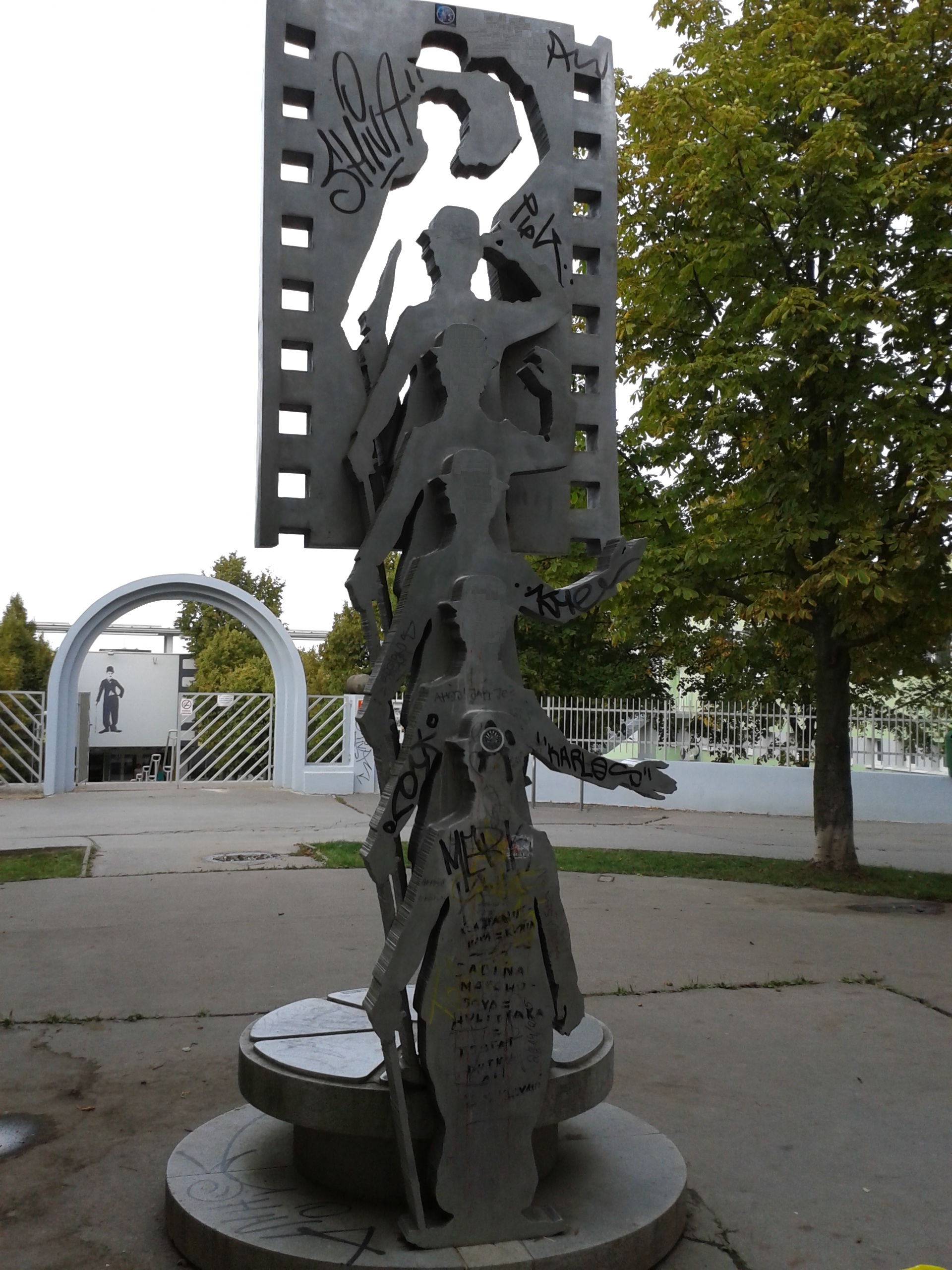 Work of art. Title: "Chaplin - Sculpture silent film"; Author: Czech sculptor, painter, writer, university lecturer Vladimír Preclík (* 1932 - † 2008); co architects: Zdeněk Hölzel and Jan Kerel; Year: 1988; Material: hydronálium (AlMg = alloy with improved corrosion resistance) + granite; placement in public space: The lower part of Chaplin's Square, Barrandov, Prague 5, Czech Republic. Description: The sculpture is made up of six silhouettes that represent the six stages of film shot.